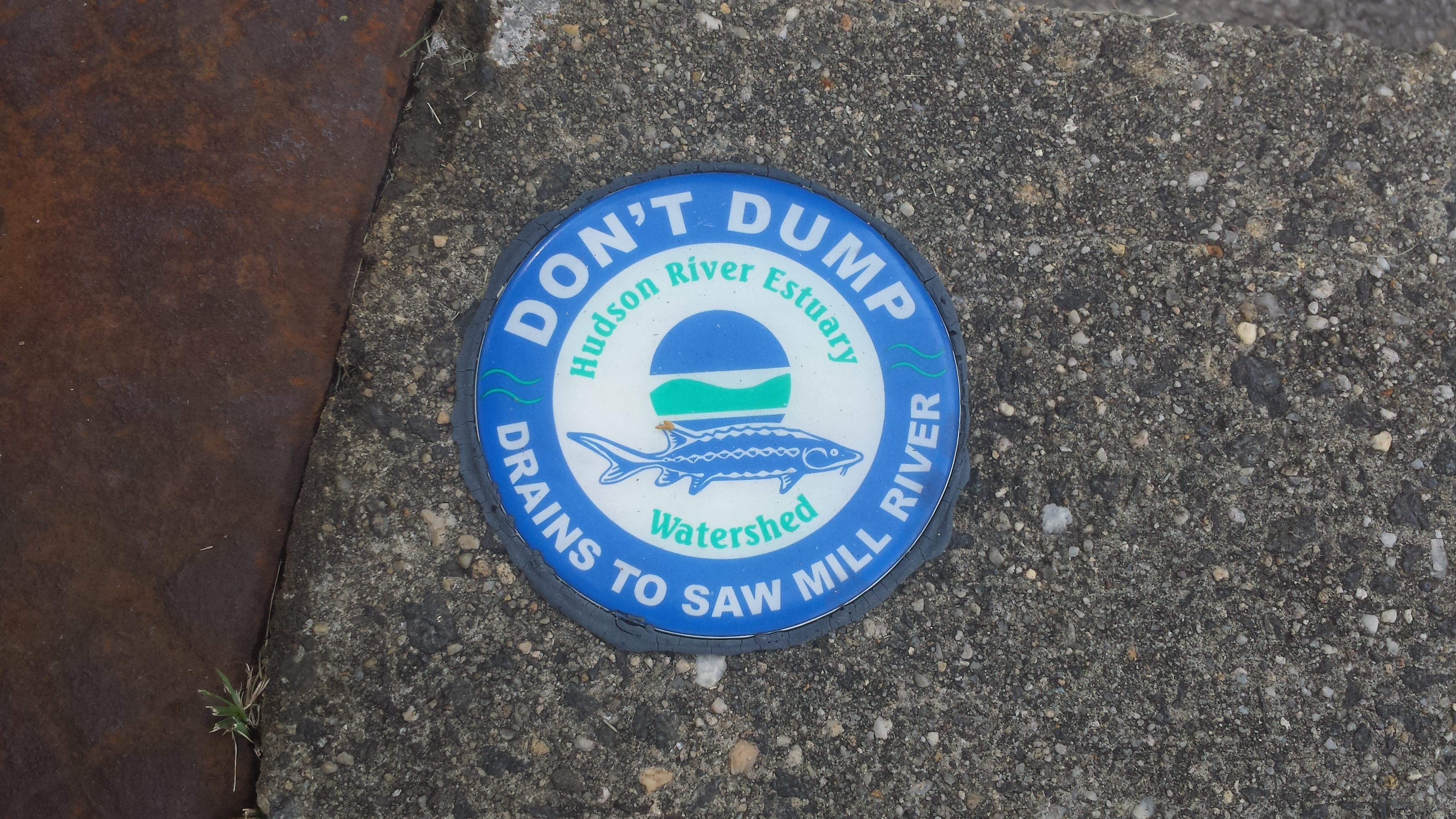 Saw Mill River Sewer Marker that notifies people that the stormwater flows into the Saw Mill River